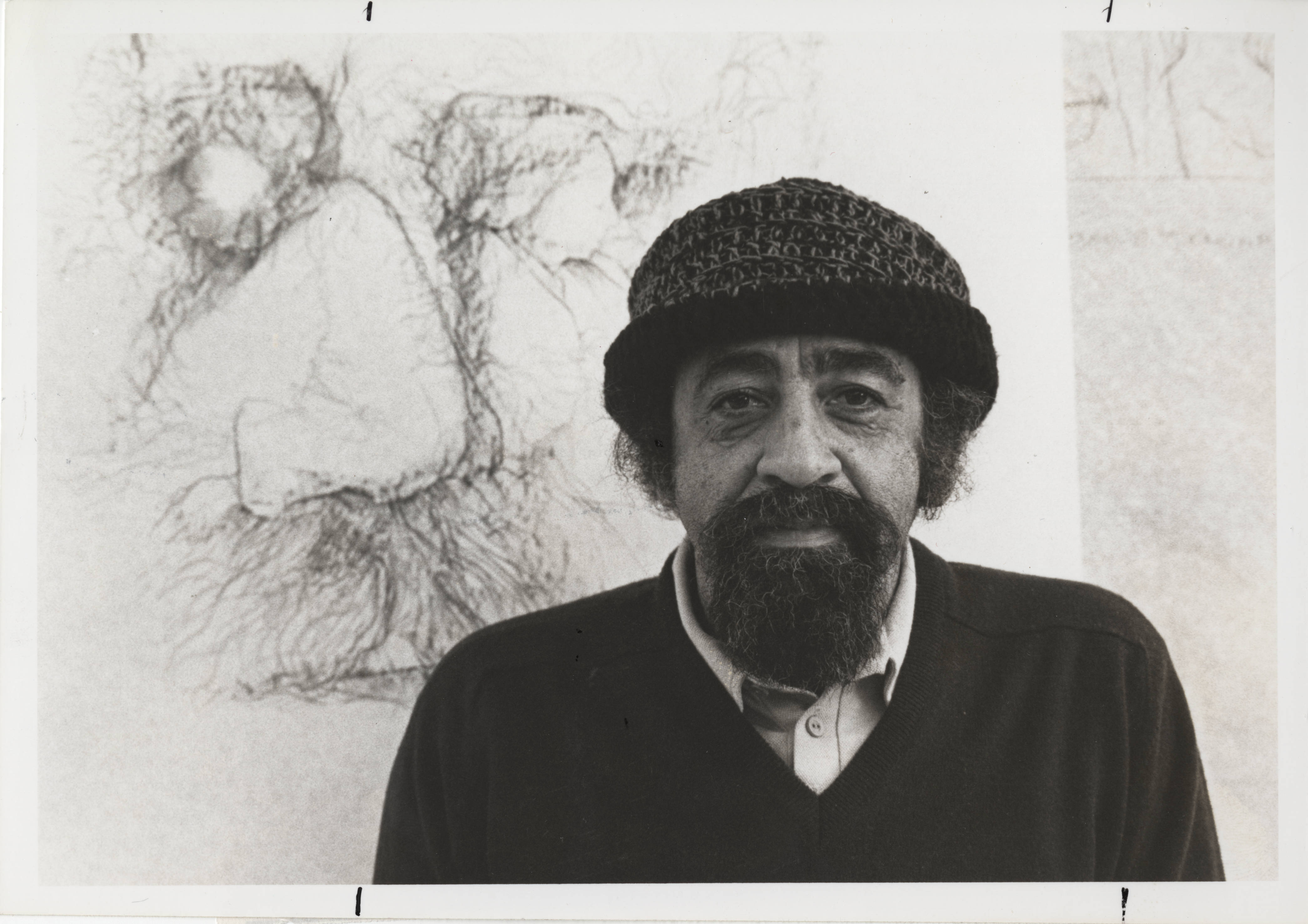 Alexander "A.B." Jackson in front of one of his works